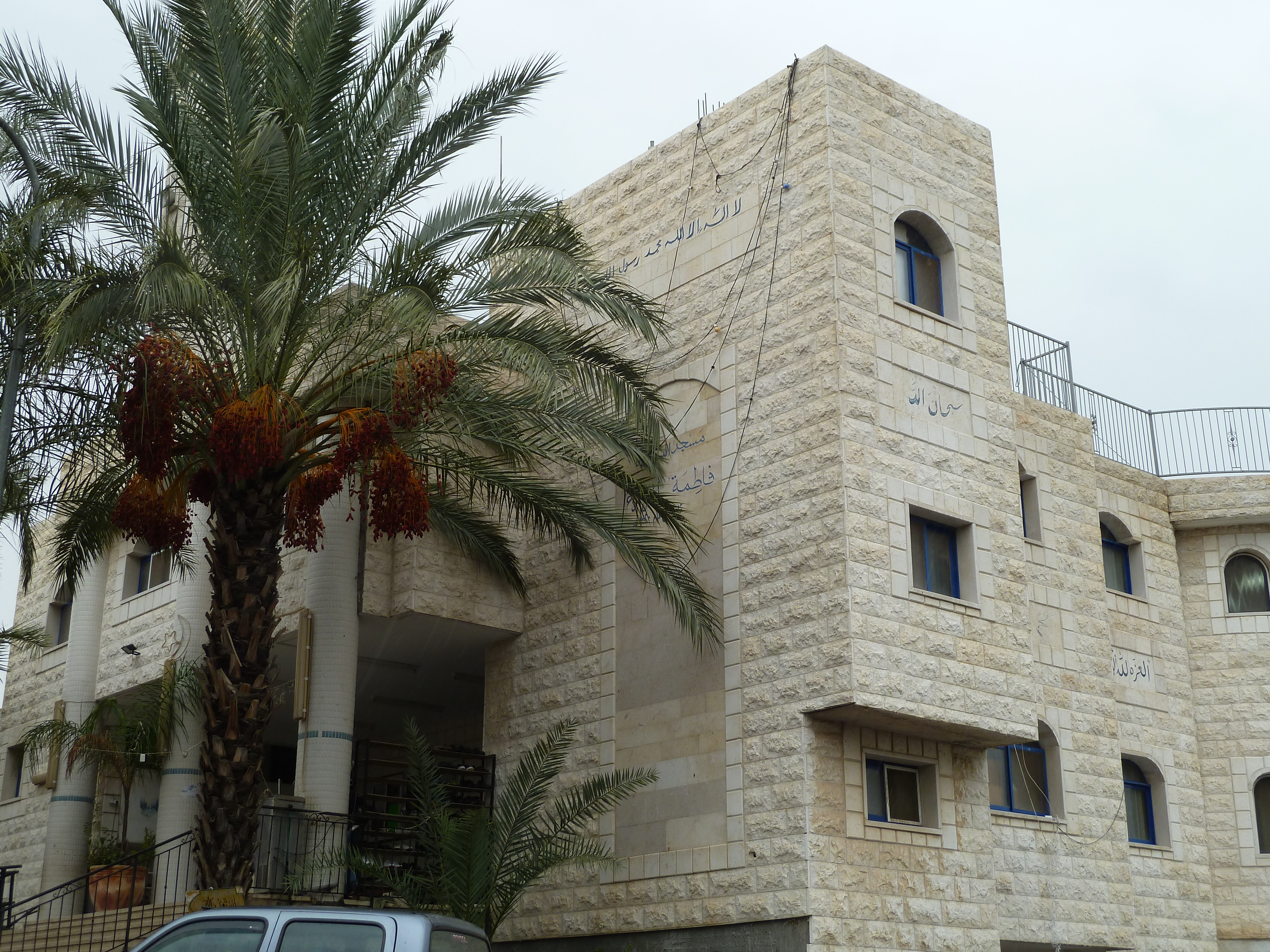 Kafr Qara